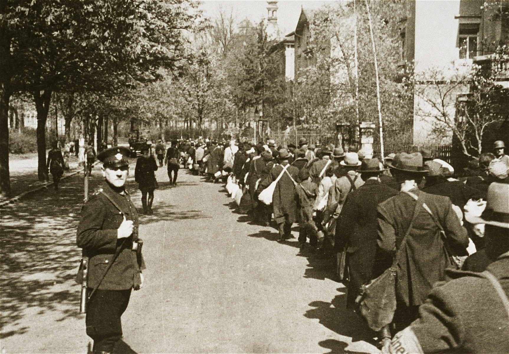 Deportation of Jews from Würzburg to the Lublin district, 25 April 1942 (USHMM 46207)